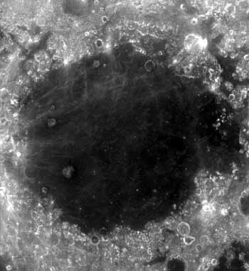 Mare Crisium, also known as the "Sea of Crisis", is located in the Crisium basin, just northeast of Mare Tranquillitatis. This basin is of the Nectarian epoch, while the mare material is of the Upper Imbrian epoch. This mare is 376 miles in diameter, with many notable features in and around it. The cape-like feature protruding into the southeast of the mare is Promonitorium Agarum. On the western rim of the mare you can make out the ghost crater Yerkes. The crater Picard can be seen, just to the east of Yerkes. You can also make out the crater Peirce , just northwest of Picard. Mare Anguis can be clearly seen just to the northeast of Mare Crisium.